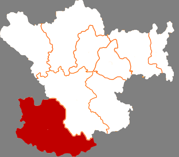 Location of Wen county in Longnan city, China